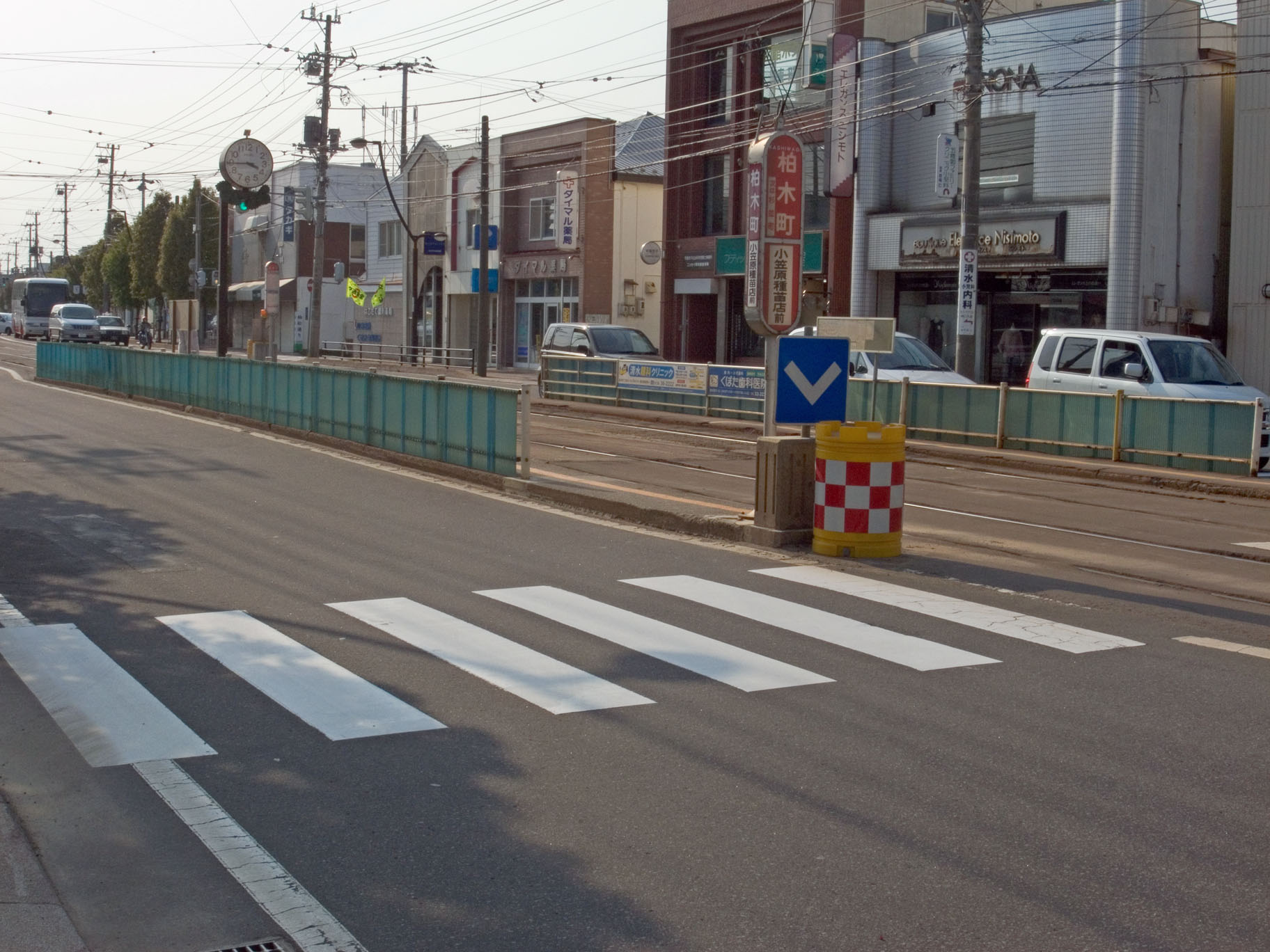 Kashiwagicho station in Hakodate tram, Hokkaido, Japan